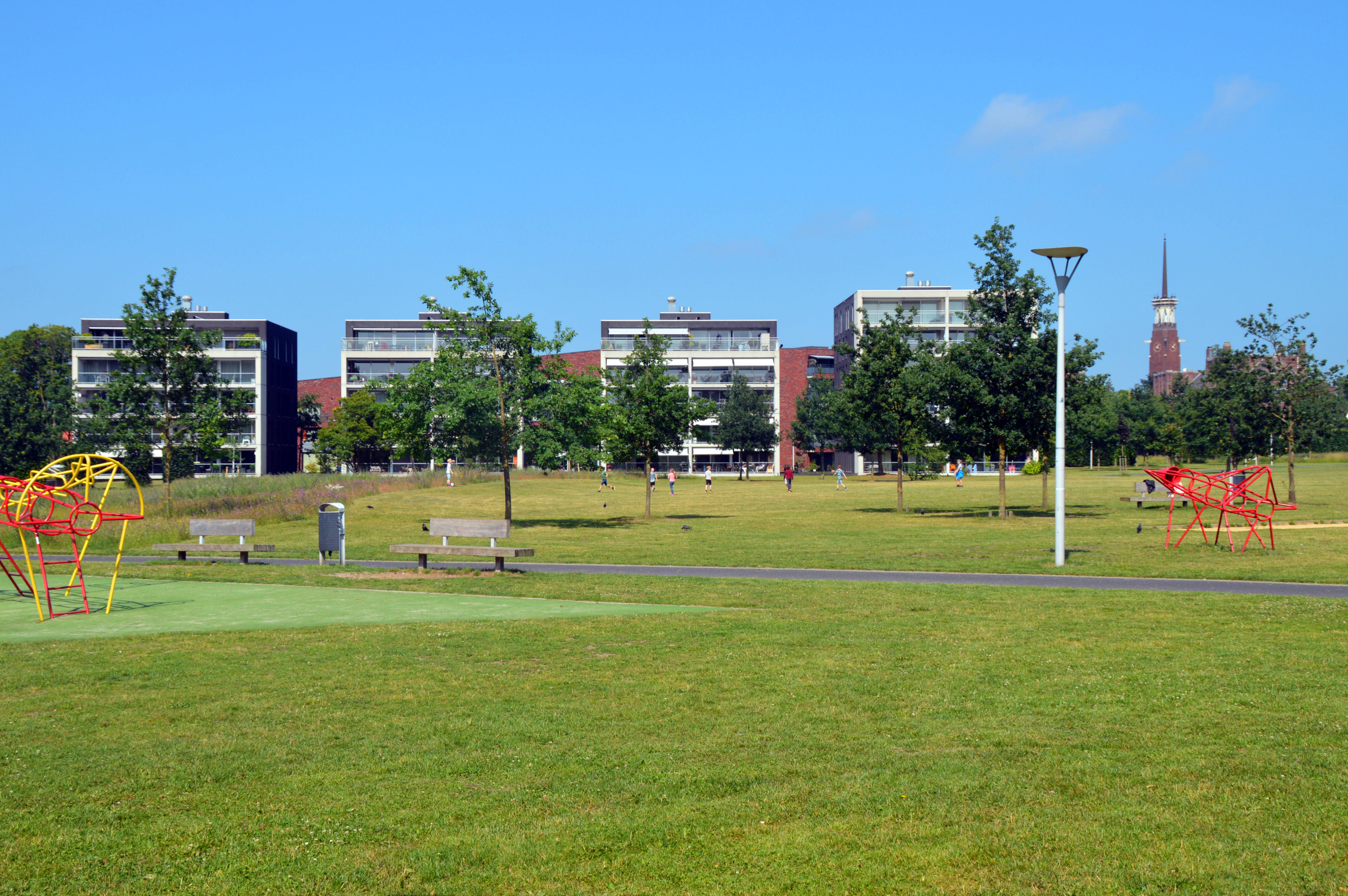 Limospark, Limoslaan, Hengstdal, Nijmegen with the Koningstoren in the background